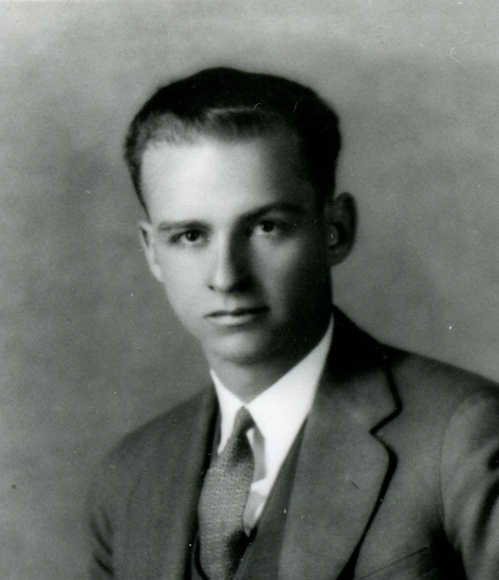 Photographic portrait of Perry Cossart Baird Jr. 1928, the year of his graduation from Harvard Medical School.